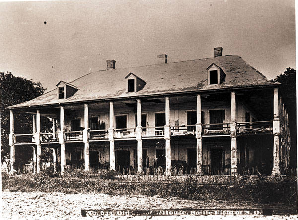 Denis de la Ronde House c.1866. Chalmette Louisiana, Versailles Sub Division